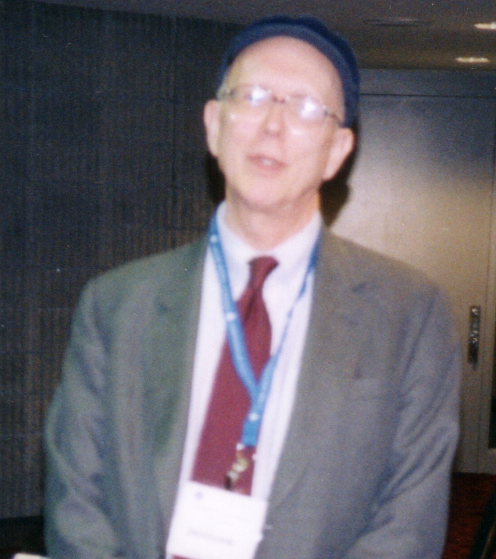 George Whitesides at the 2006 Atlanta ACS meeting